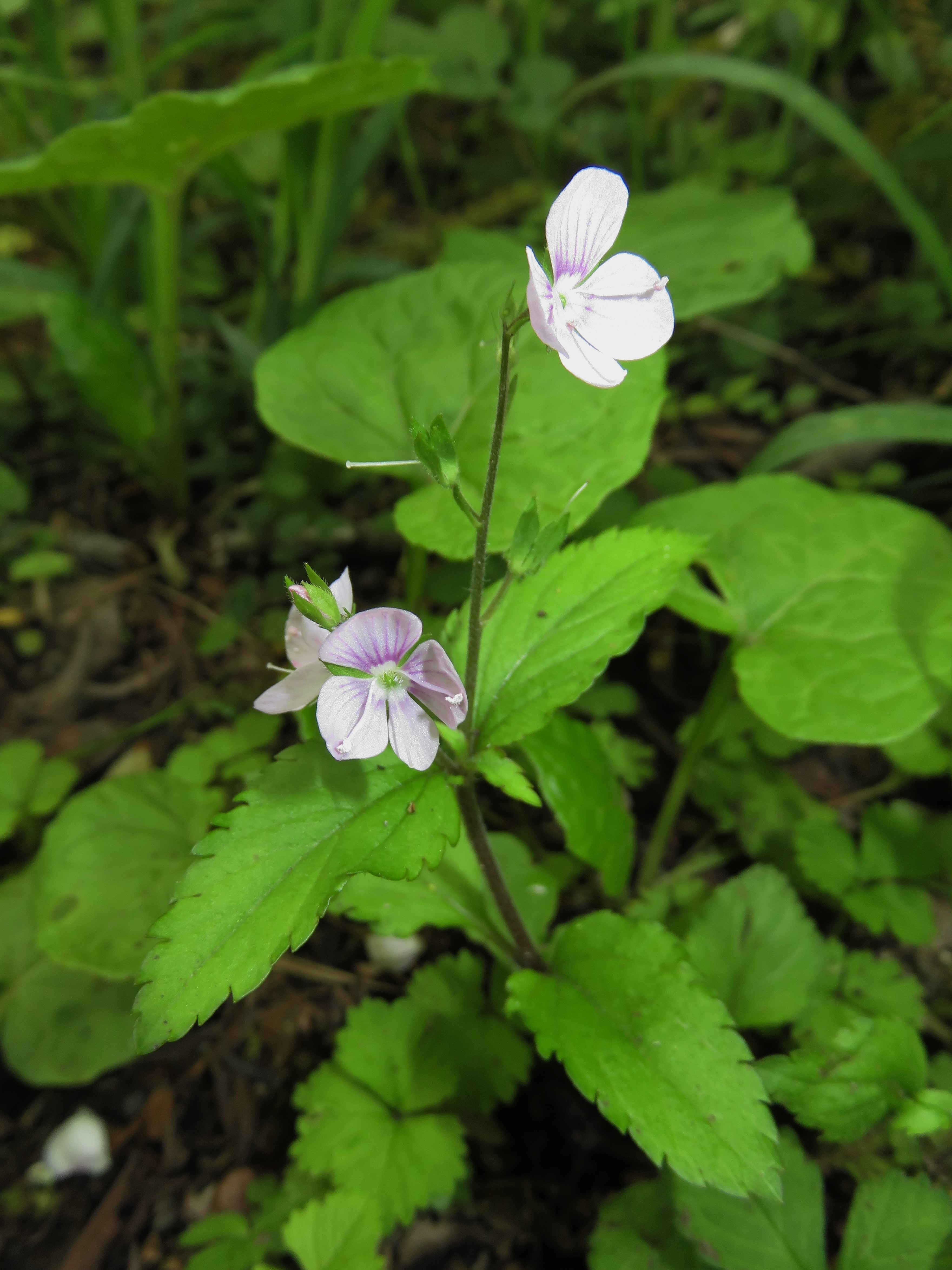 Veronica miqueliana, Nikko city, Tochigi pref., Japan